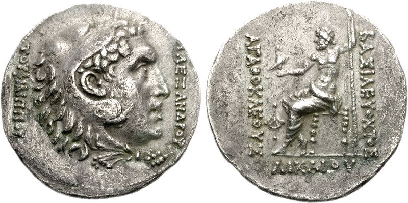 Agathokles commemorative coin for Alexander the Great. Circa 185-180 BC. AR Tetradrachm (16.67 g, 12h). ‘Pedigree’ commemorative of Alexander III of Macedon. ALEXANDROU YOU FILIPPOU, head of Herakles right, wearing lion skin / BASILEUONTOS DIKAIOU AGAQOKLEOUS, Zeus Aëtophoros seated left; monogram to inner left